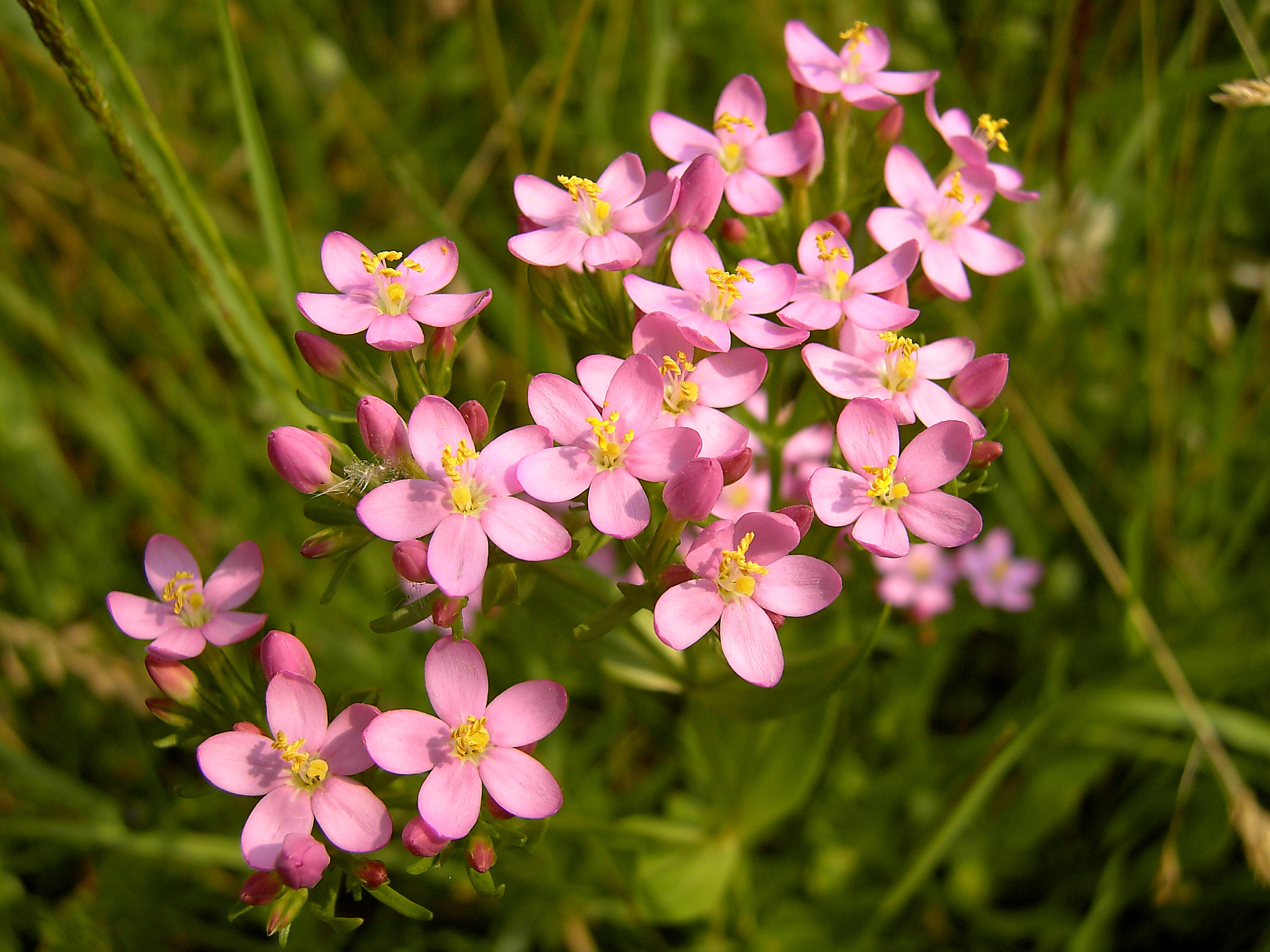 flowers at Ankerstraat, Oostende, Belgium